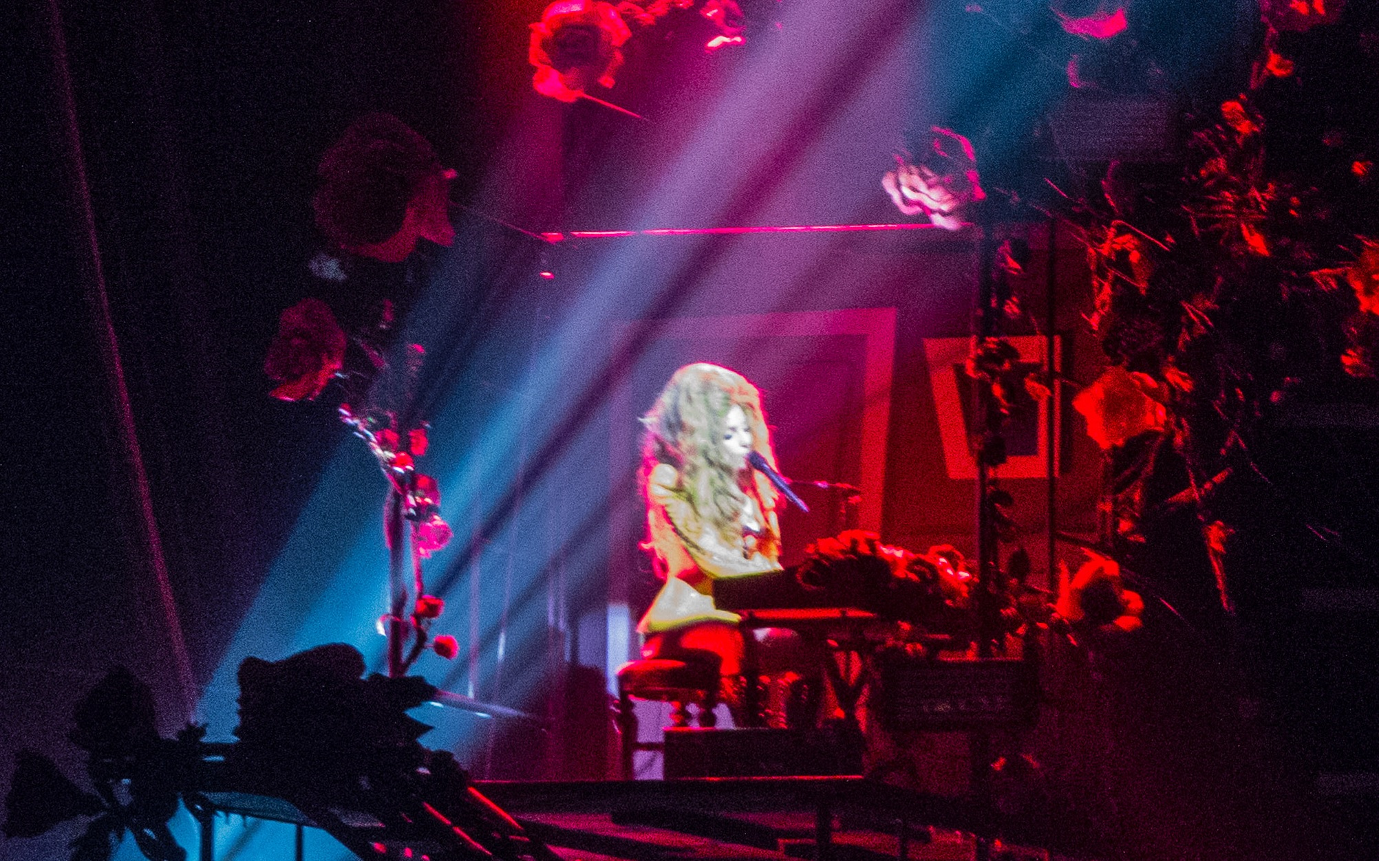 Lady Gaga performing "Born This Way" at Roseland Ballroom.